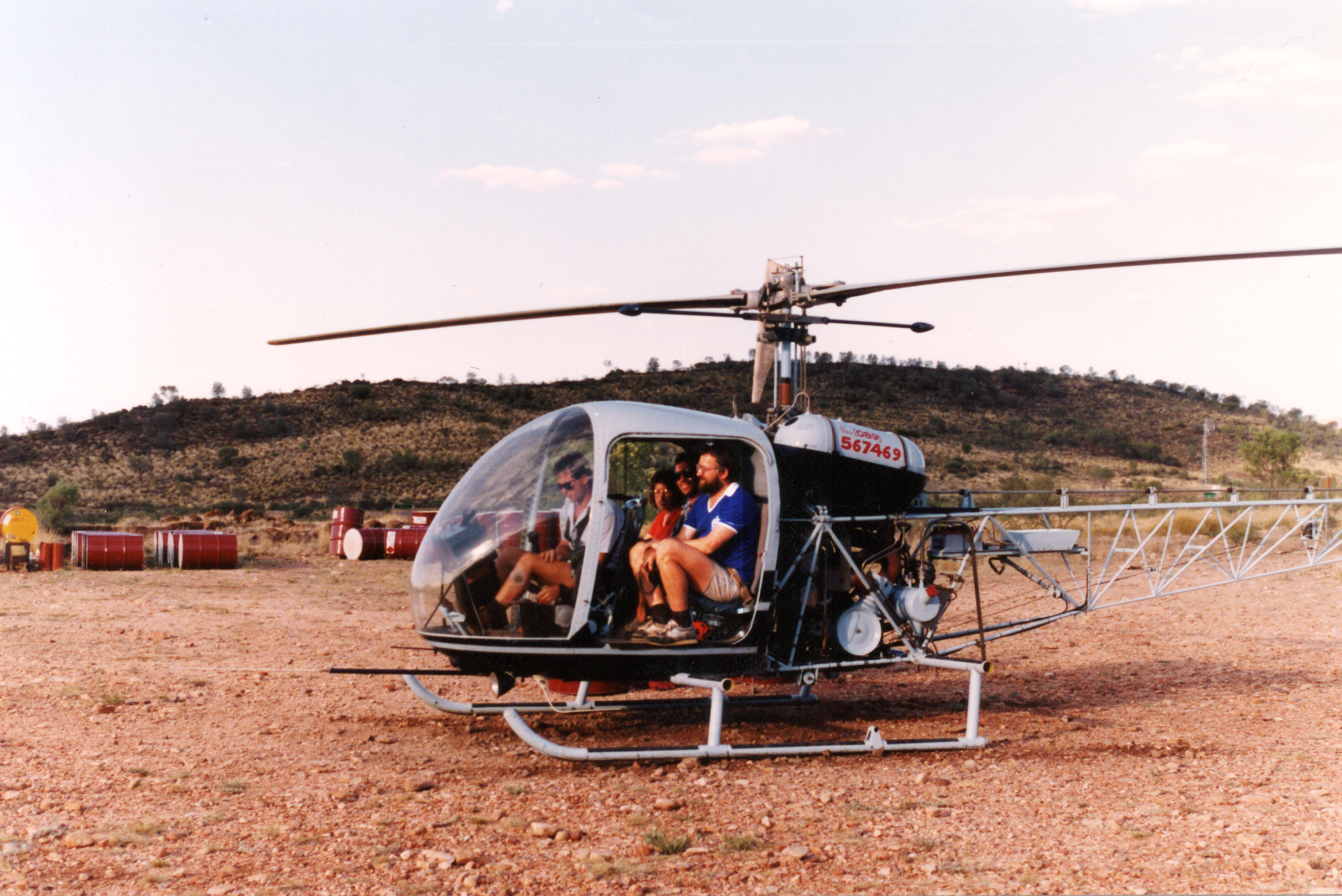 Kawasaki Heavy Industries 47G3B-KH4 (KH-4) CN 2188, built 1971. This closer image gives more detail of the engine and cockpit.